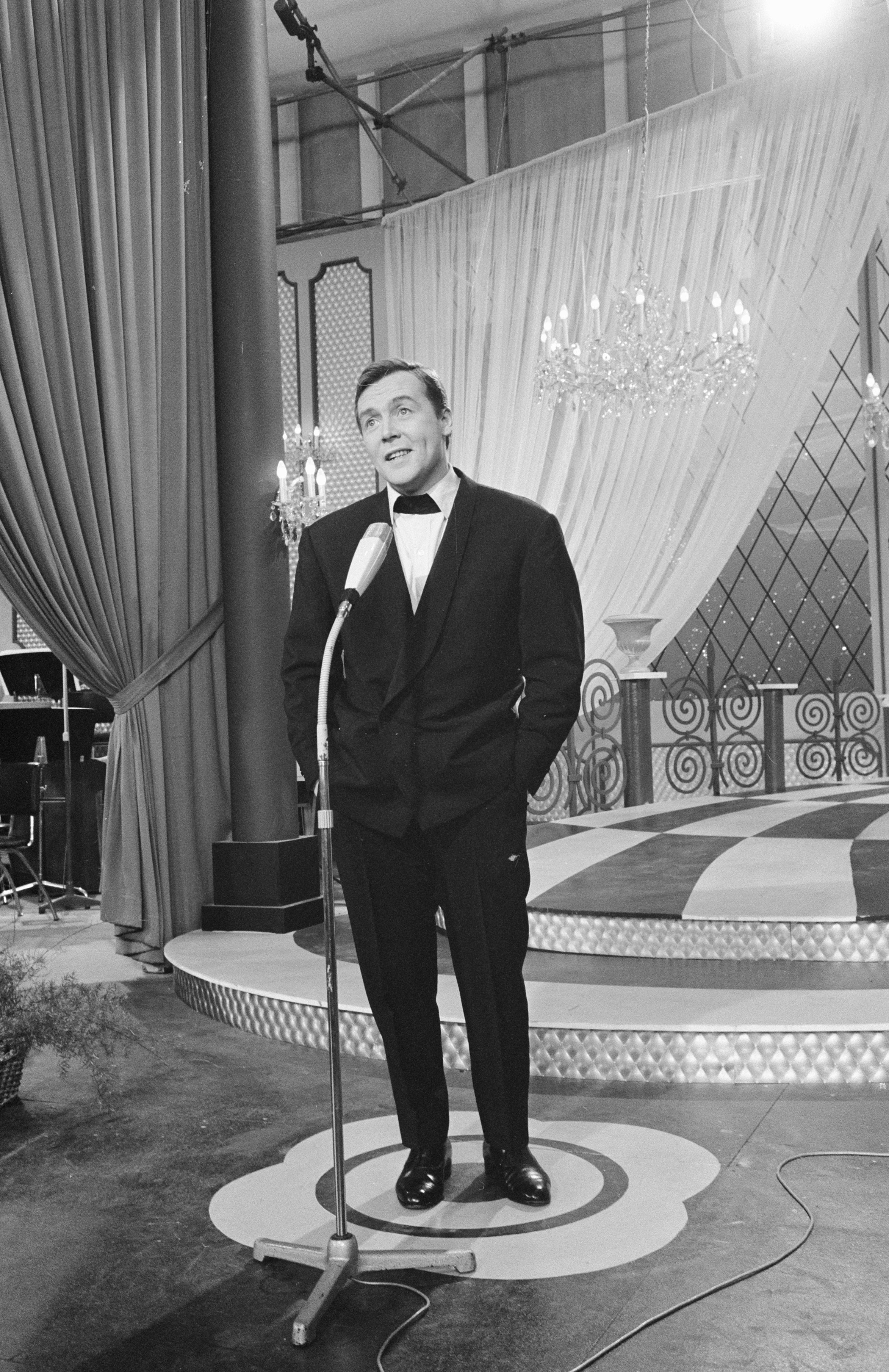 François Deguelt at the 1962 Eurovision Song Contest in Luxembourg